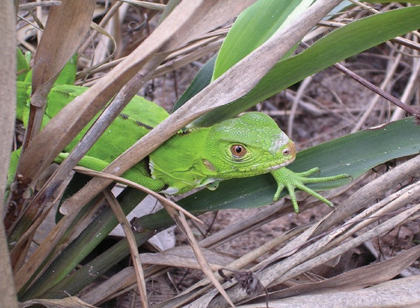 Iguana iguana (juvenile) in Lençóis Maranhenses National Park, Maranhão State, Northeastern Brazil. Photo by J. P. Miranda.